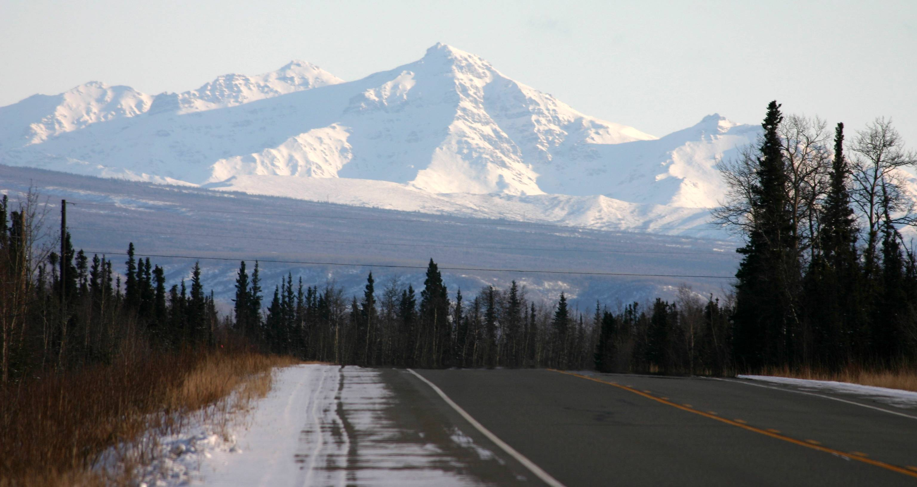 Taken during a road trip from Anchorage to Fairbanks in March 2008.